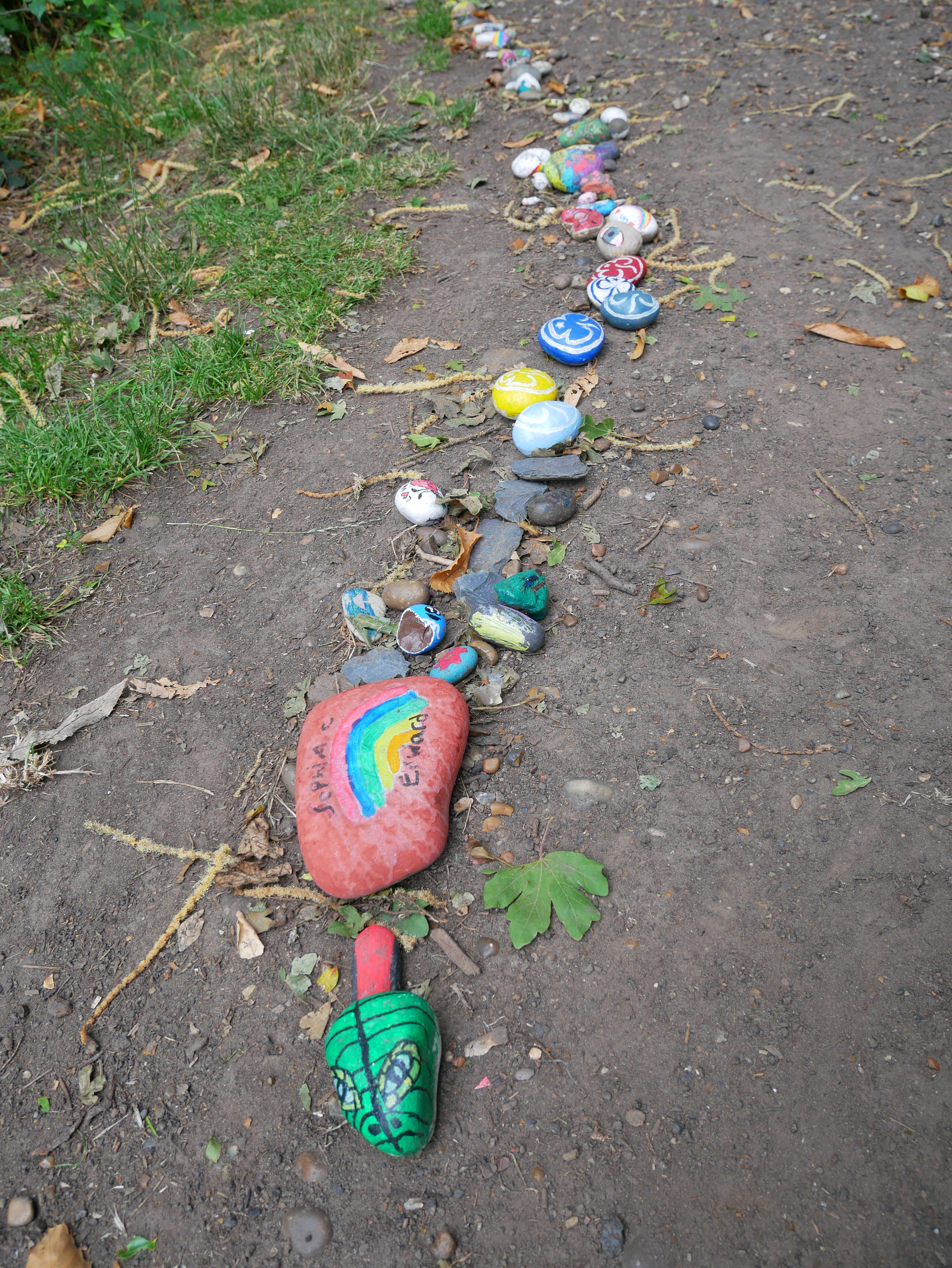 The head of the rock snake, made up of decorated pebbles, in Bursted Wood, London Borough of Bexley. This part of the snake was located in the northwest part of the wood.